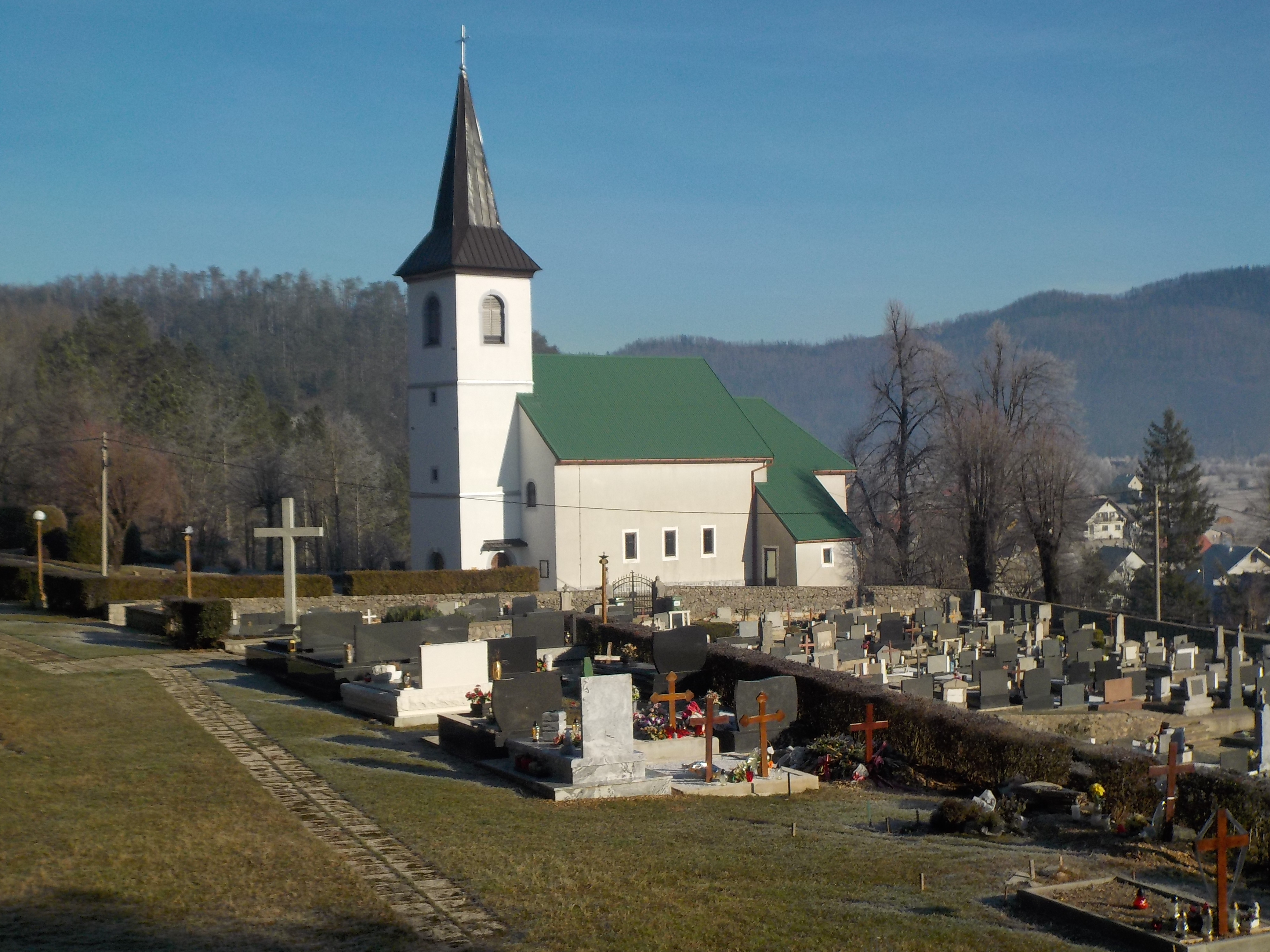 The Saint George church at Lič, Croatia.